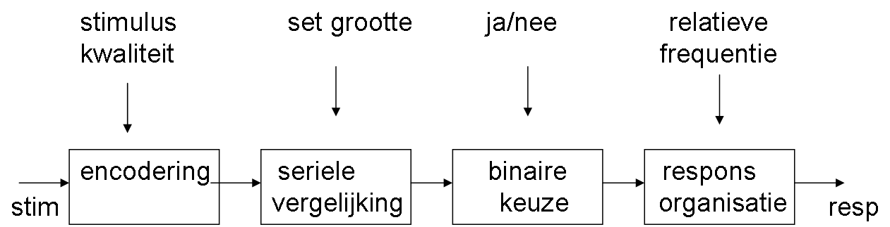 The additive factors method of Sternberg.